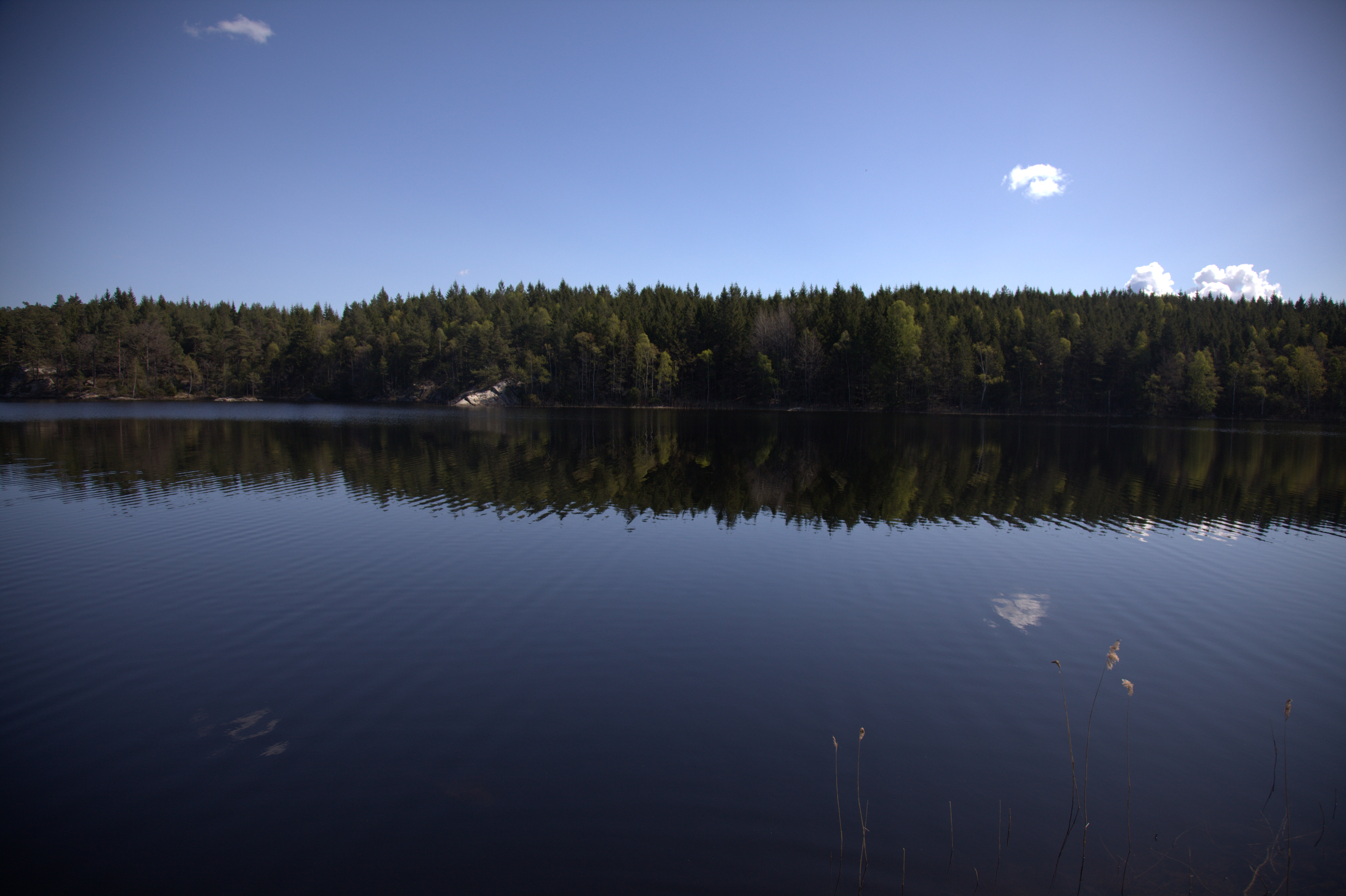 Valevattnet in Stenungsund municipaty, view towards east